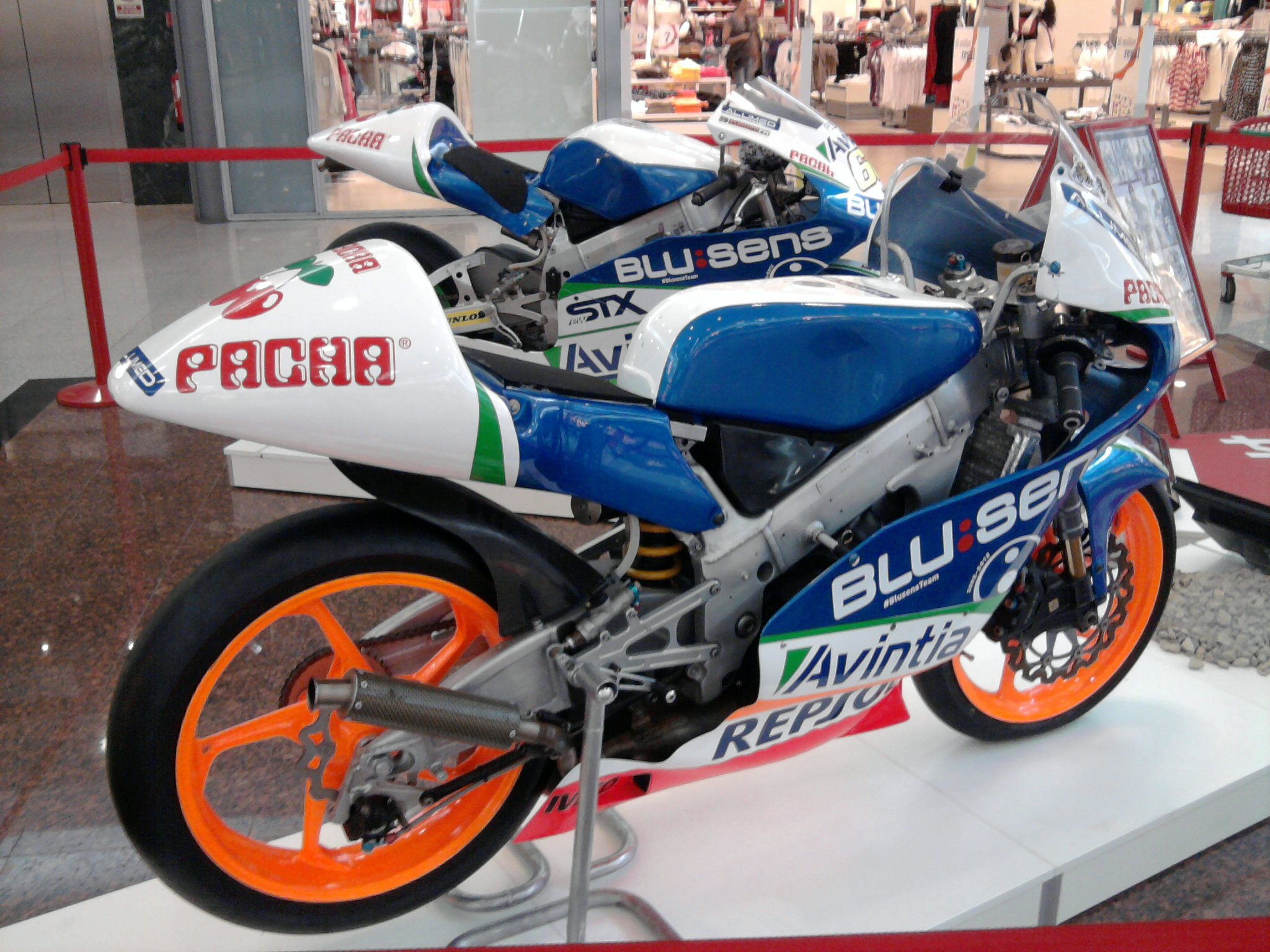 Front: Honda Moto3 of the Blusens Avintia team, ridden by Maverick Viñales in the season 2012. Shown at commercial center Alcampo in Mataró (Catalonia).